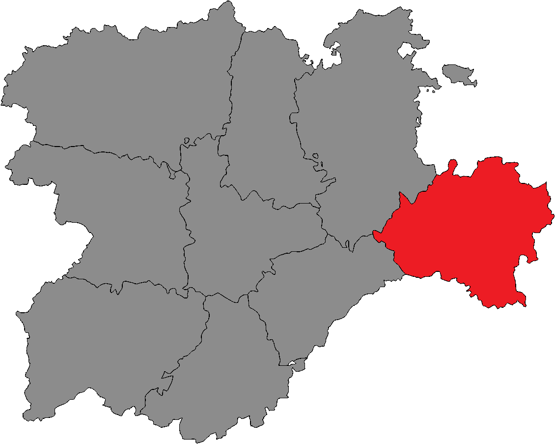 Cortes of Castile and León district of Soria.